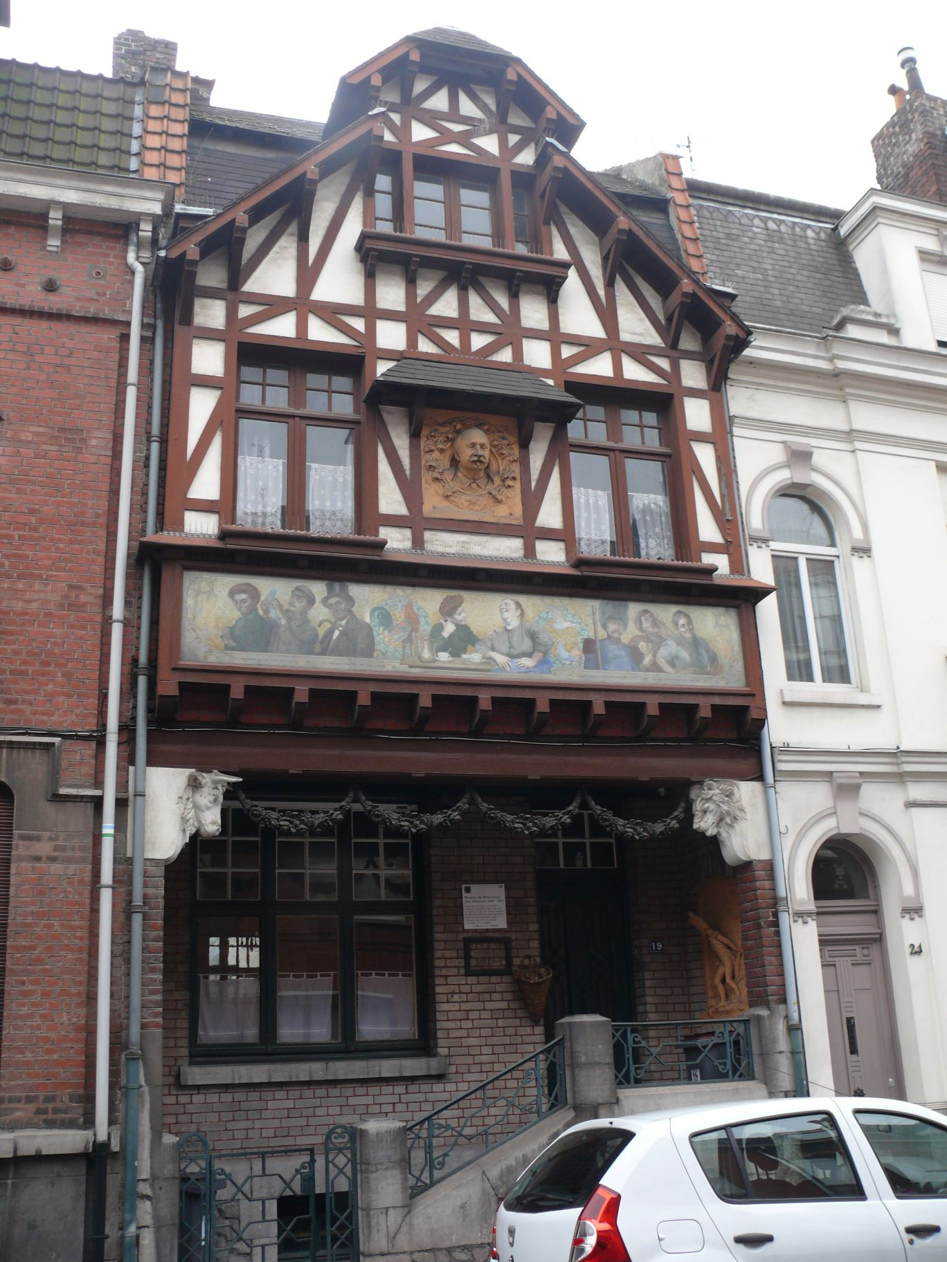 The house of Jules Watteeuw (Le Broutteux) in Tourcoing (Nord, France).